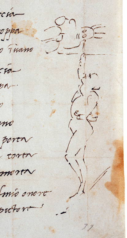 Michelangelo, Sketch illustrating a sonnet decribing the painting of the Sistine Chapel